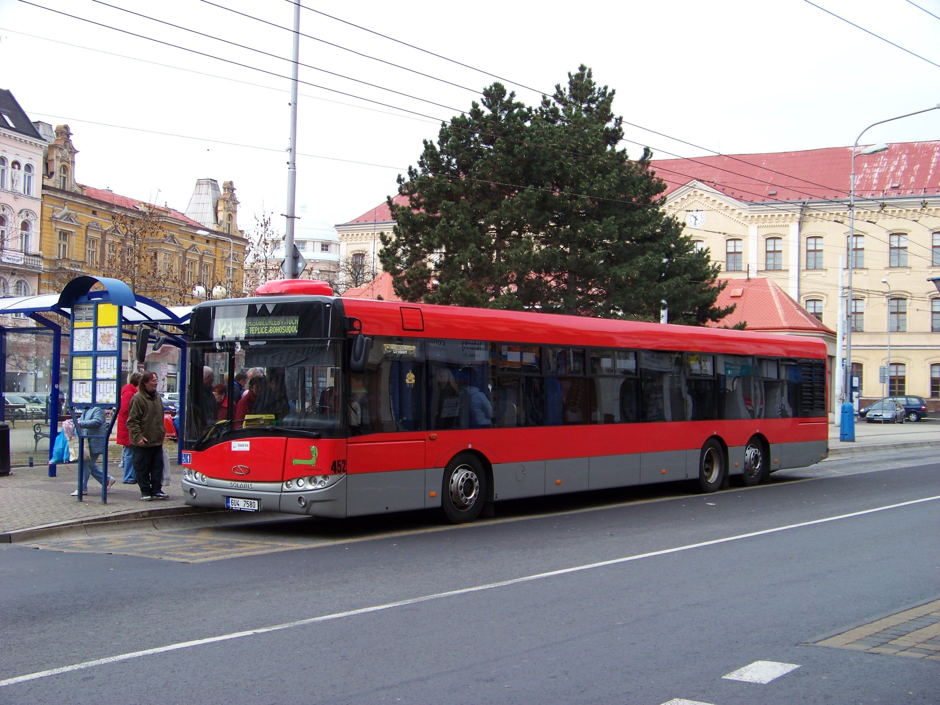 Teplice, Teplice District, Ústí nad Labem Region, the Czech Republic. Školní street and Beneš Square. Solaris Urbino 15 bus (#452, reg. 6U4 7580, built 2010), Veolia Transport Teplice operator.